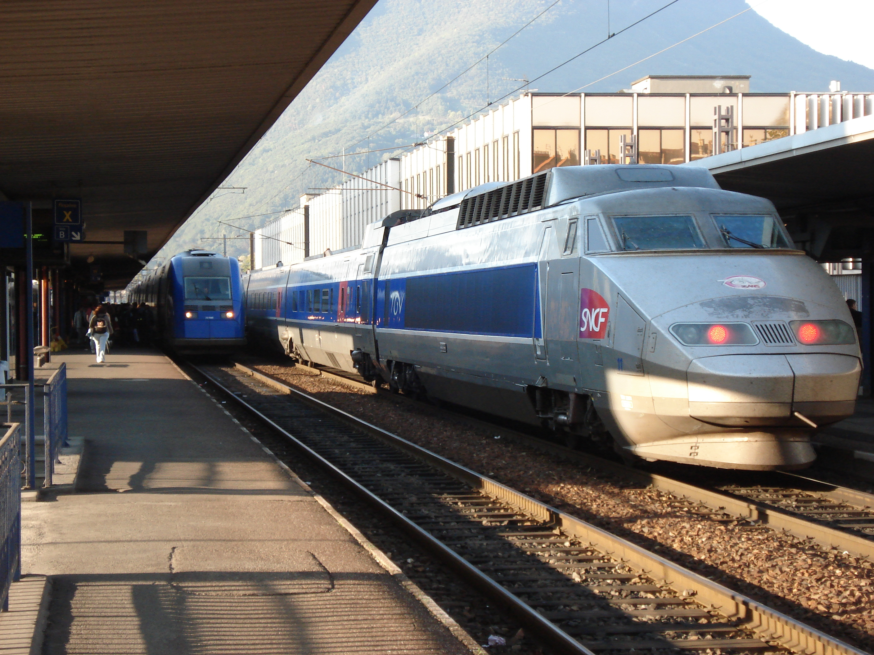 TGV PSE in Grenoble station